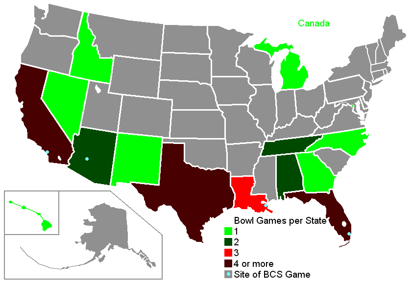 derived from Image:BlankMap-USA-states.PNG; map of states with 2009-10 NCAA football bowl games schools (and their division)